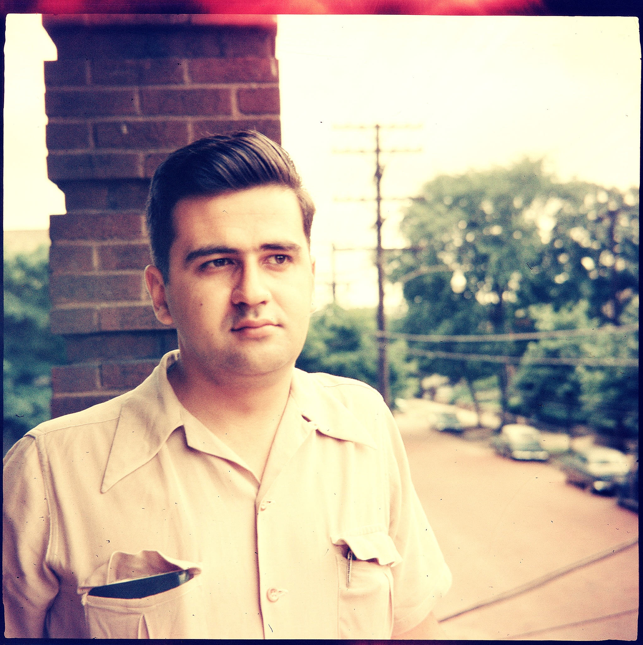 Luc Chicoine, Cleveland